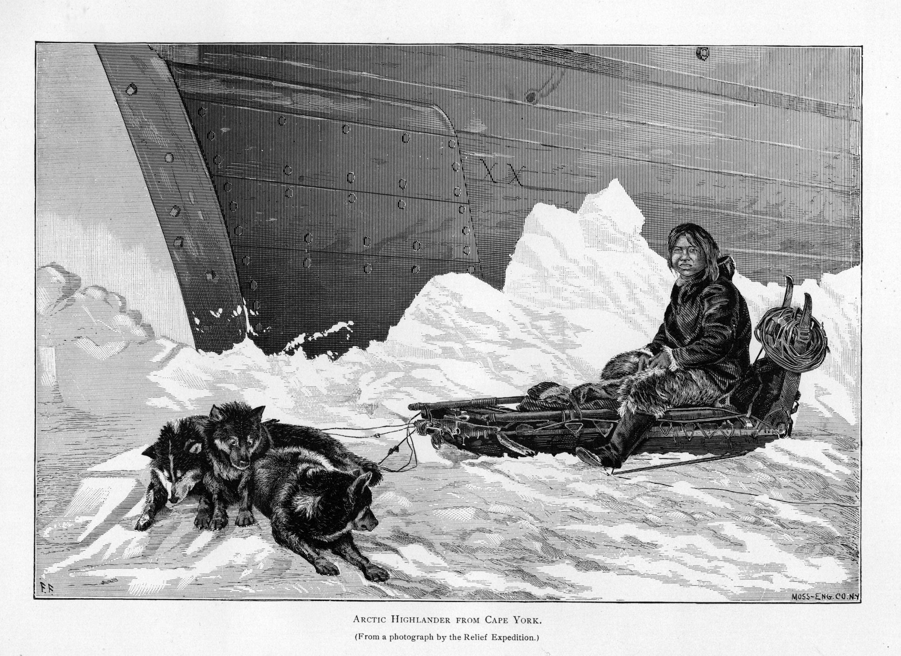 Plate from a publication of the first IPY (International Polar Year, 1882-1883) - see report for download